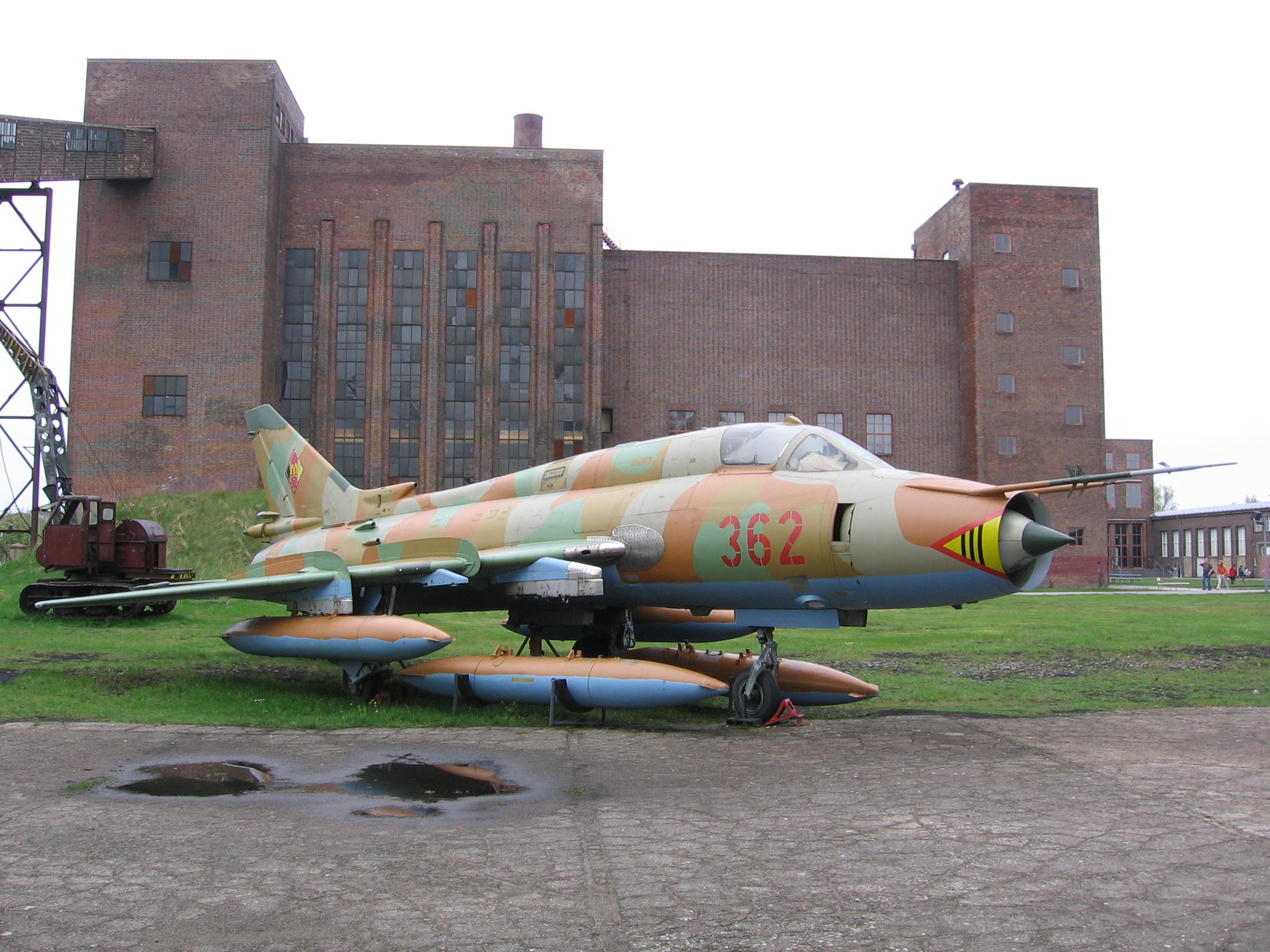 Su-22M4.